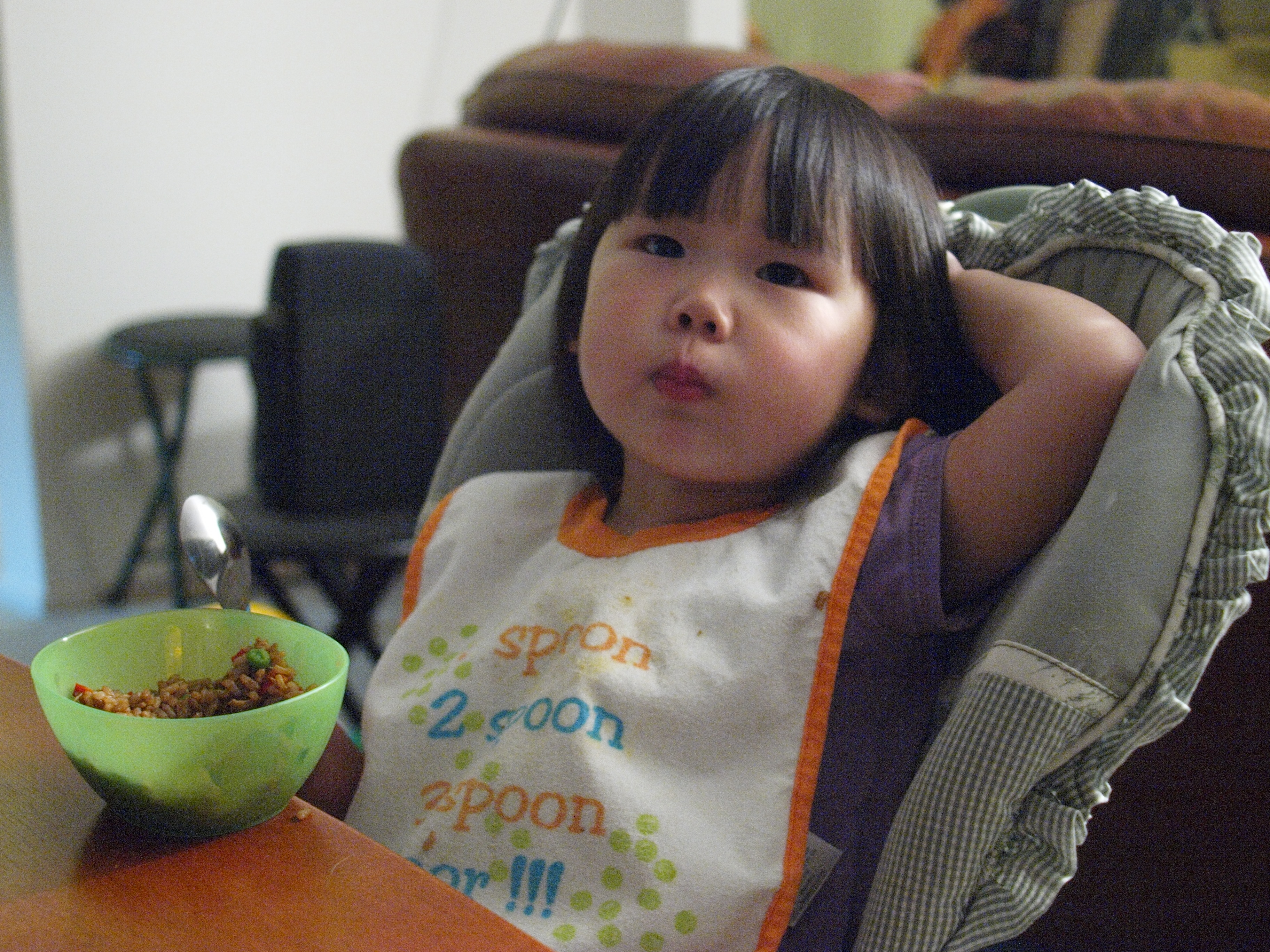 Taking a break or just overwhelmed?